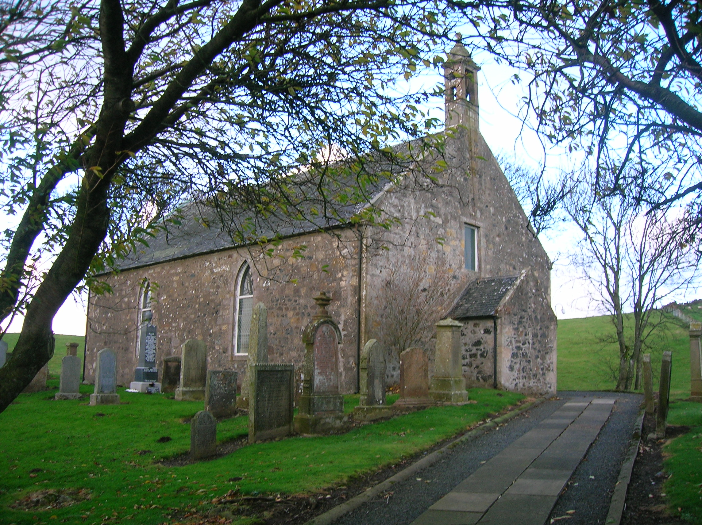 Craigie Parish Church, Craigie village, South Ayrshire, Scotland